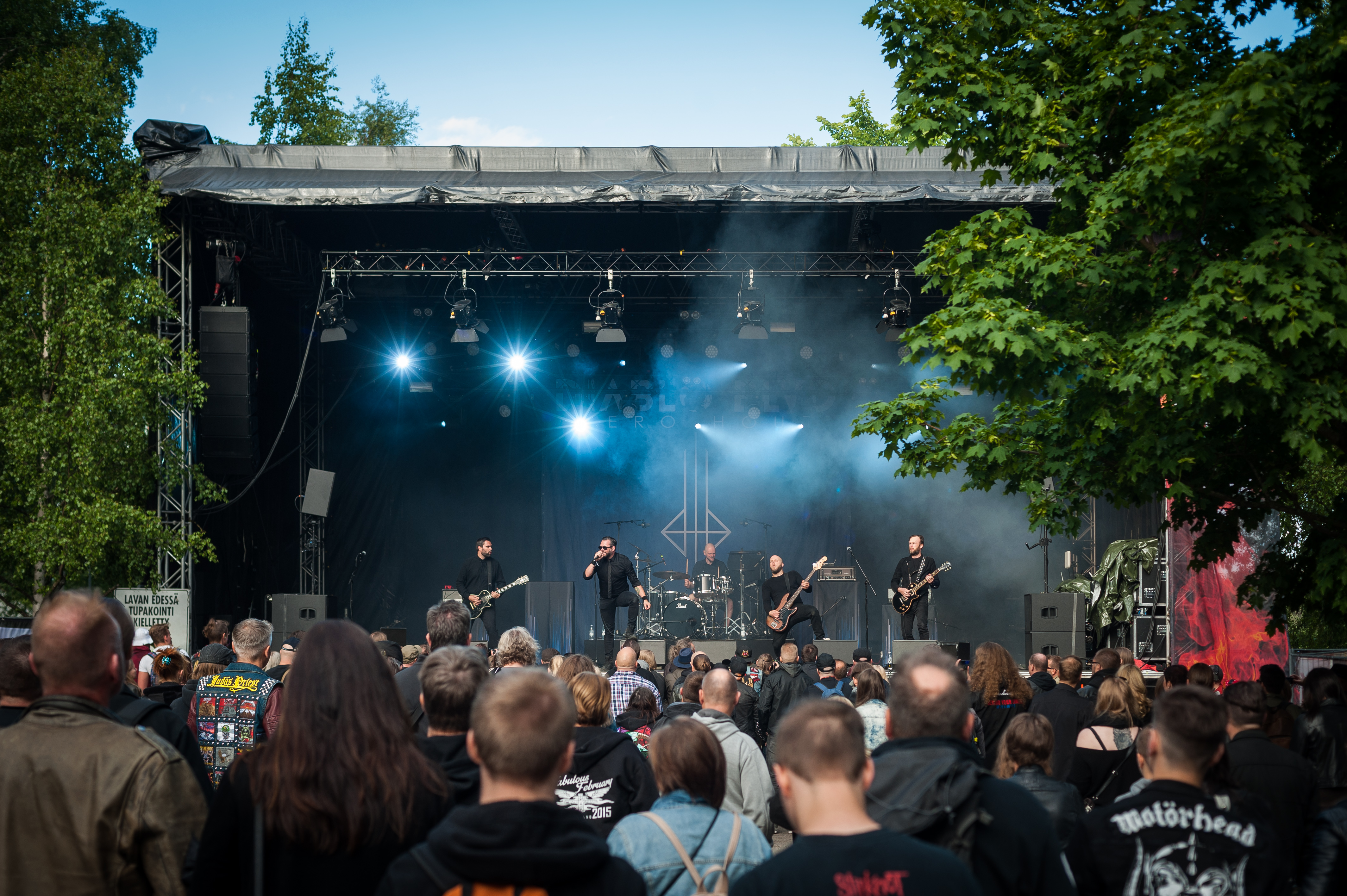 Belgian heavy metal band Diablo Blvd performing at the 2018 South Park festival in Tampere, Finland.